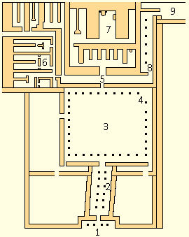 A depiction of the layout of Neferirkare's mortuary temple. In order: (1) The entry point to the temple; column portico with four columns; (2) Columned entry hall; (3) Columned courtyard with (4) thirty-seven wooden columns; (5) Transverse corridor following north-south; (6) Storerooms, notable for the Abusir papyri found there; (7) Inner temple; (8) Columned corridor with six columns leading to (9) a passageway into the main pyramid's courtyard. Based on Verner, Miroslav (2001) The Pyramids: The Mystery, Culture and Science of Egypt's Great Monuments, New York: Grove Press, pp. 291-297